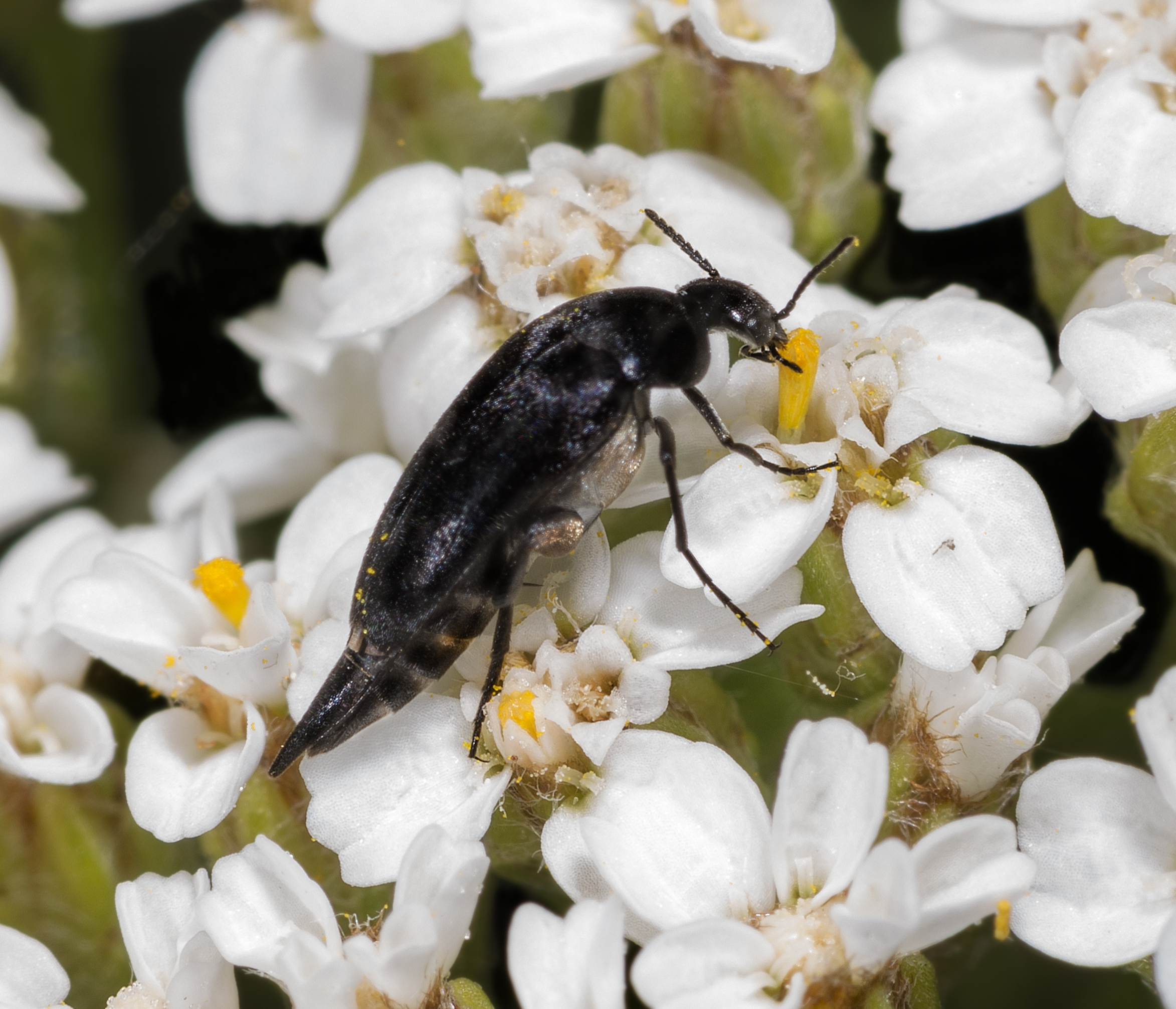 Mordella aculeata, side view.